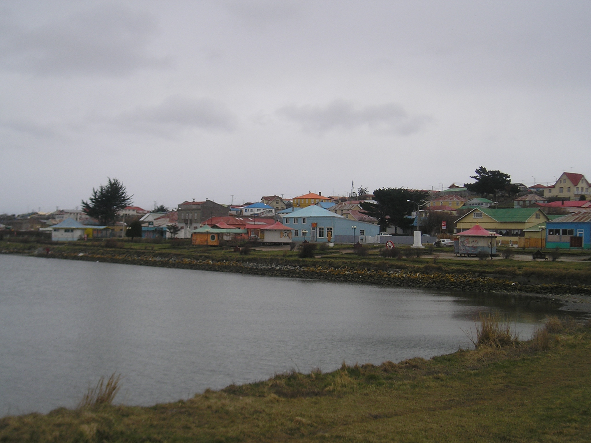 Porvenir, Chile - a view of the town